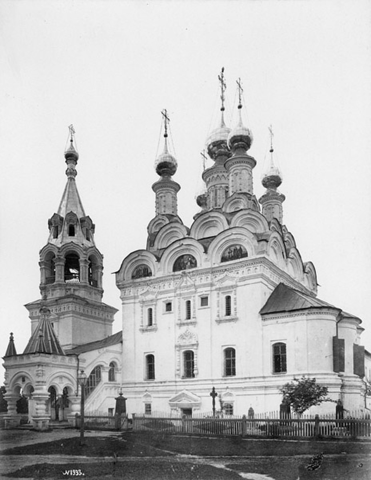 Annunciation monastery, Murom.